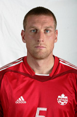 A headshot of Jason de Vos taken on September 4, 2004.